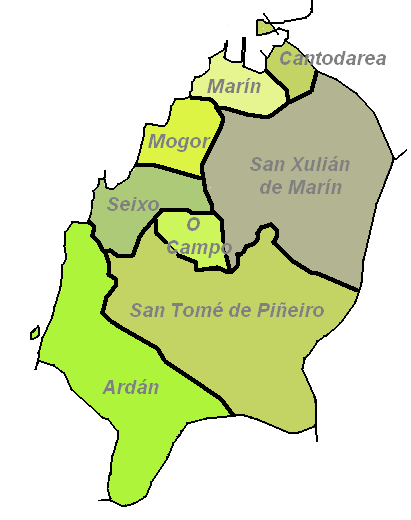 Parishes of Marín